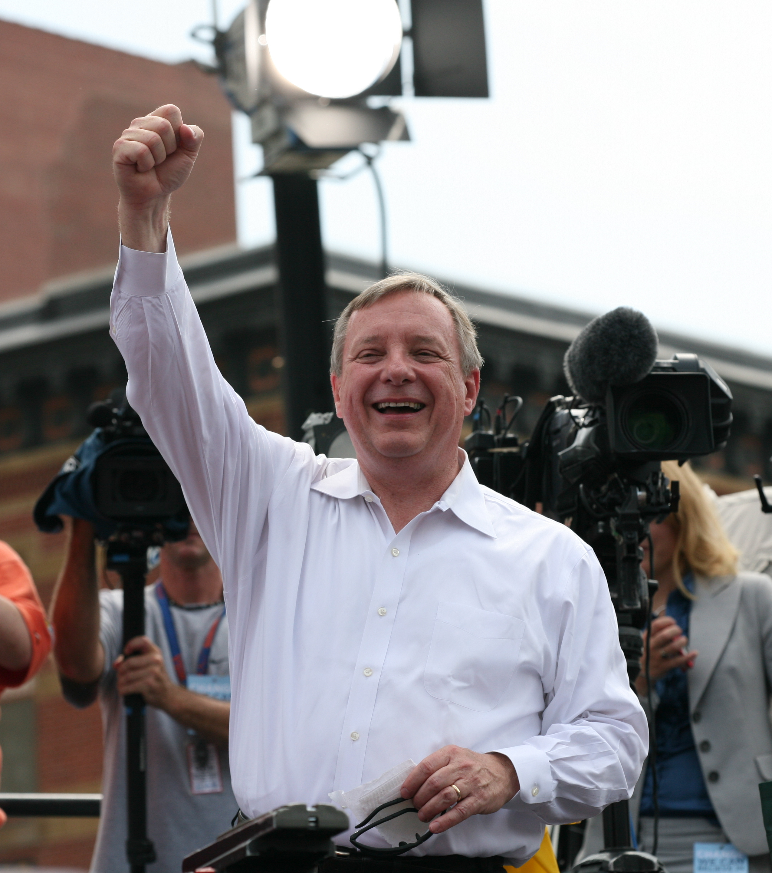 Richard Durbin at the first joint rally of Barack Obama and Joe Biden in Springfield, Illinois